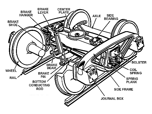 Drawing of a railroad truck or bogie.